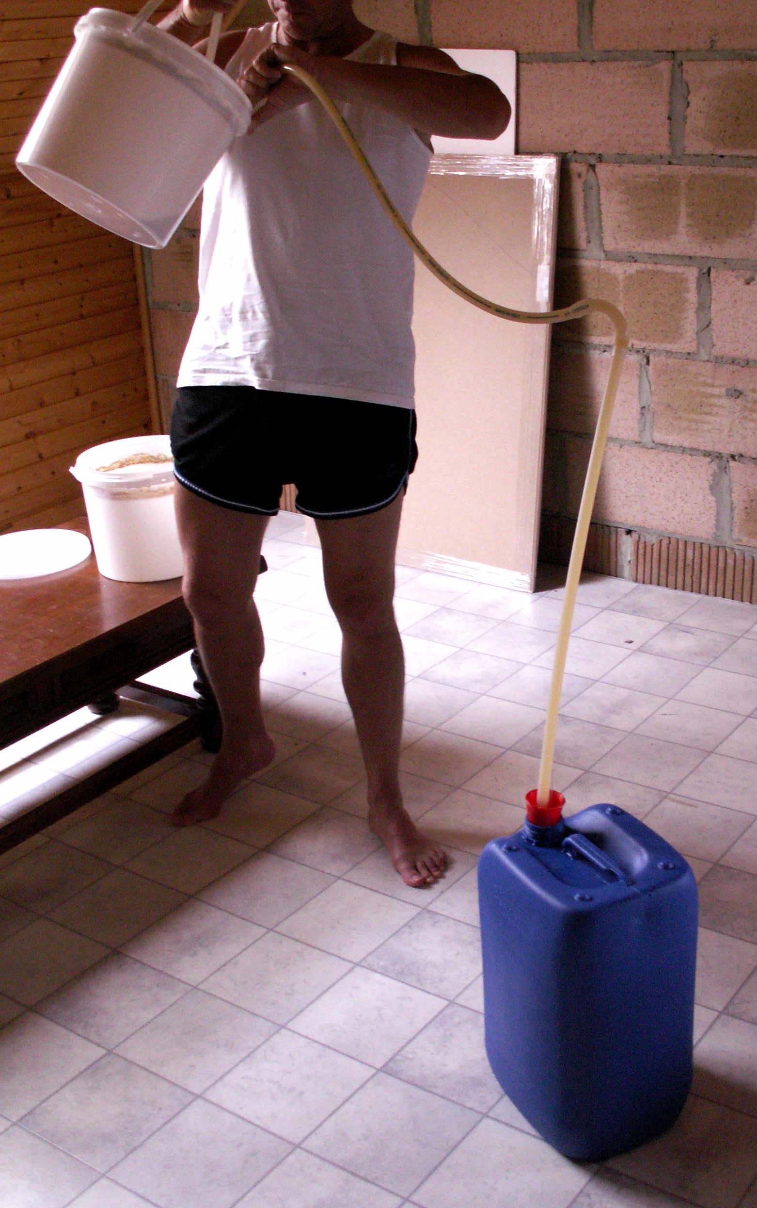 Siphoning the beer from the residu into a second tank after the first fermentation. The second tank is again equipped with a vacuum closing and fermentation lock. After the second fermentation, there is another siphoning and the beer can be consumed.